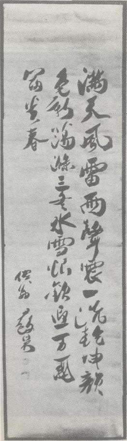 Chwaong Yun Tch's pen art